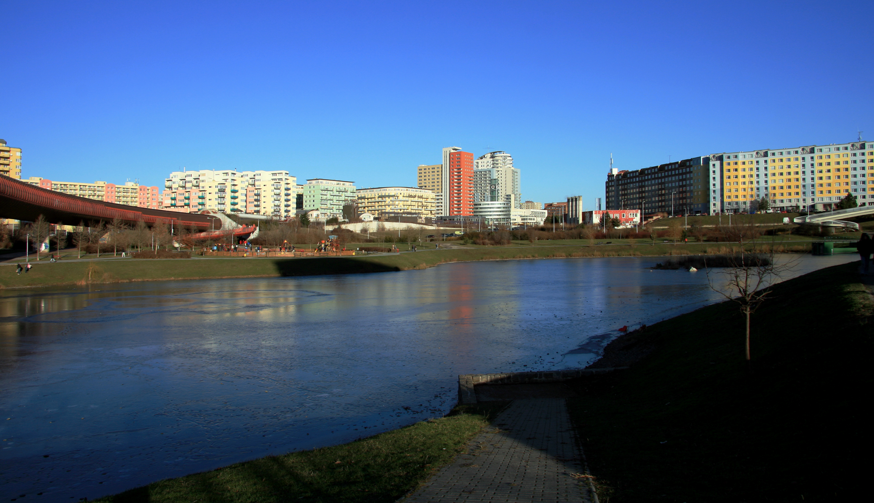 Bridge for Prague Metro line B over 2. reservoir on Prokopský potok in Stodůlky, Prague, Czech Republic